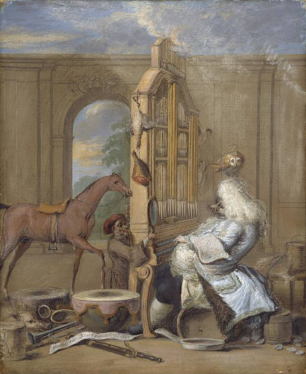 Joseph Goupy ( c.1680-1770) - "The charming Brute" (Fitzwilliam Museum Cambridge) The drawing is supposed to picture composer George Frideric Handel. Drawing made by Creator:Joseph Goupy stored at the Fitzwilliam Museum Cambridge (GB), Object number: 961 (Paintings, Drawings and Prints) Catalogue entry at the Museum on scroll under Handel's foot the words Pension, Benefit, Nobility, Friendship are written on the lower right the word Pax (peace) Original size: 393 x 323 mm Compare the caricature on this motif at Joseph Goupy, 1754 - GFHandel.jpg